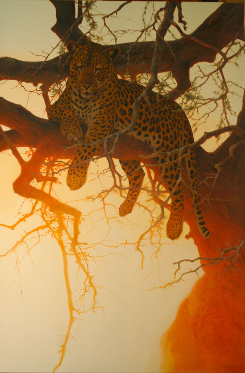 Leopard Resting in a Tree